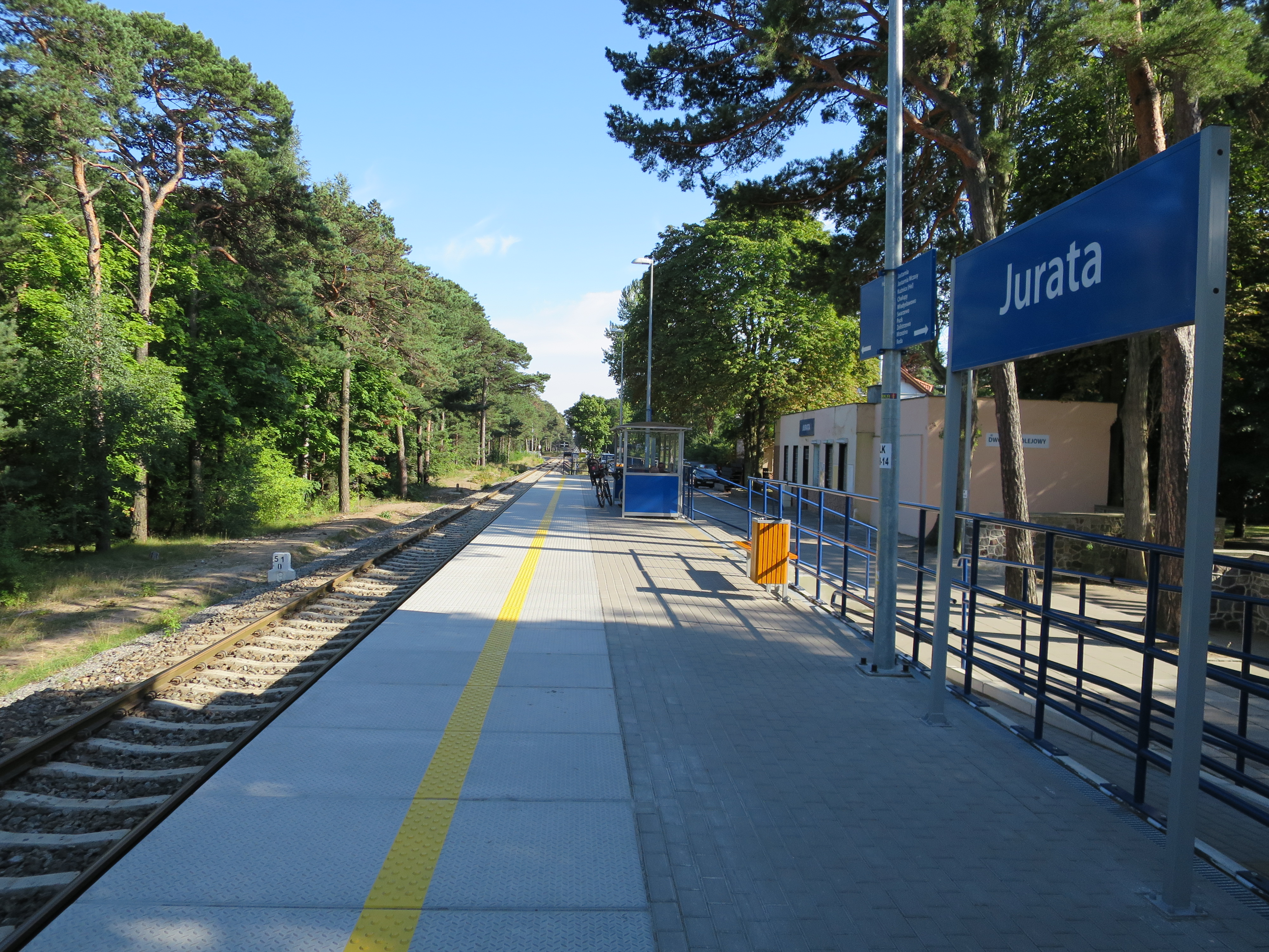 Jurata This photo was taken during Railway Wikiexpedition 2015 set up by Wikimedia Polska Association in cooperation with Fundacja Grupy PKP. You can see all photographs in category Wikiekspedycja kolejowa 2015.